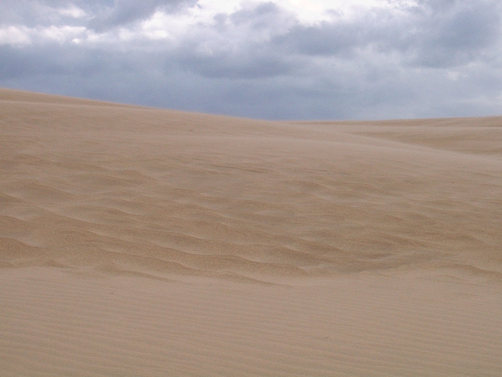 Jockeys Ridge State Park in North Carolina.